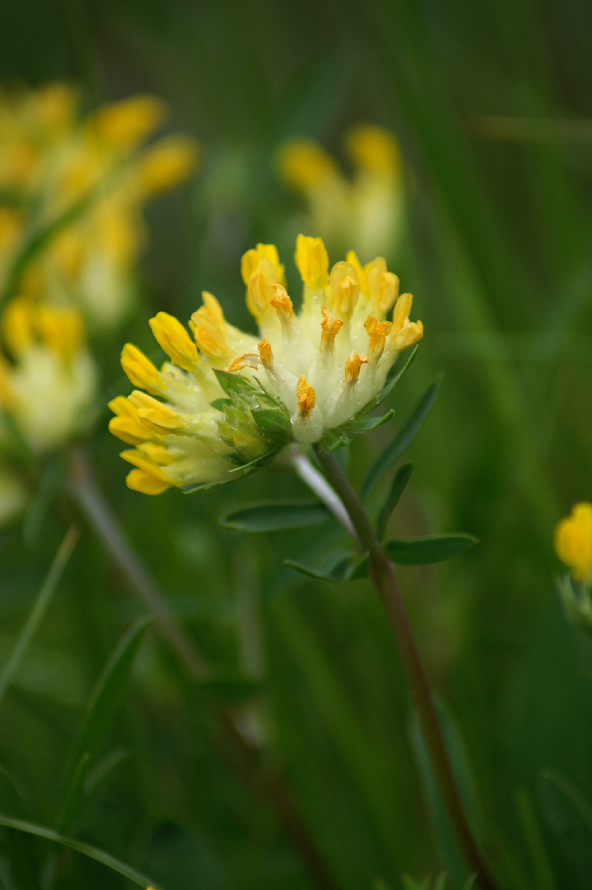 Anthyllis vulneraria Anthyllis vulneraria ('Common kidneyvetch, Kidney vetch) is a medicinal plant native to Europe.